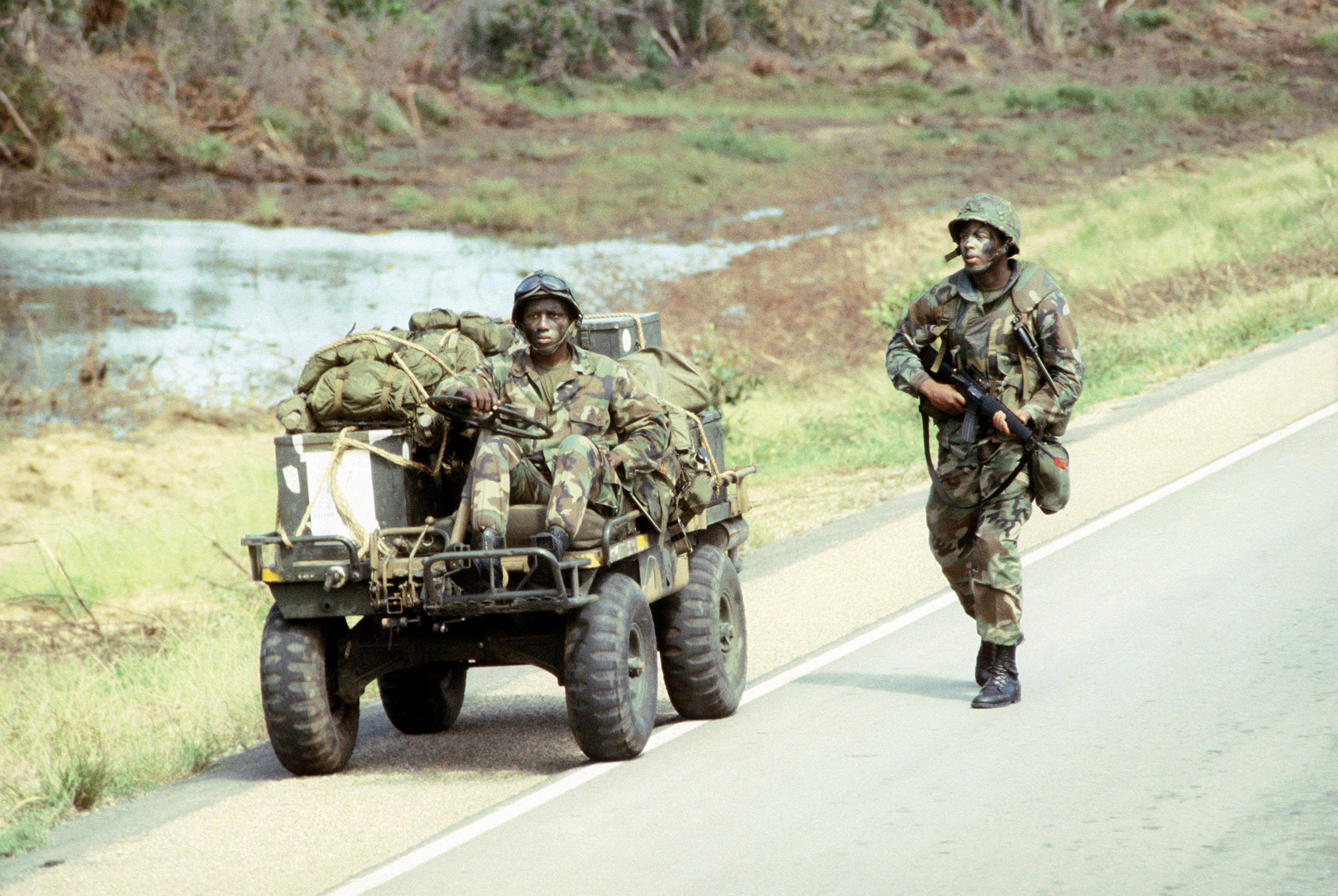 A soldier drives an M274 "mechanical mule" down a road while another soldier, armed with an M16A1 rifle, walks alongside during the joint US/Honduras field training Exercise AHUAS TARA II (BIG PINE).